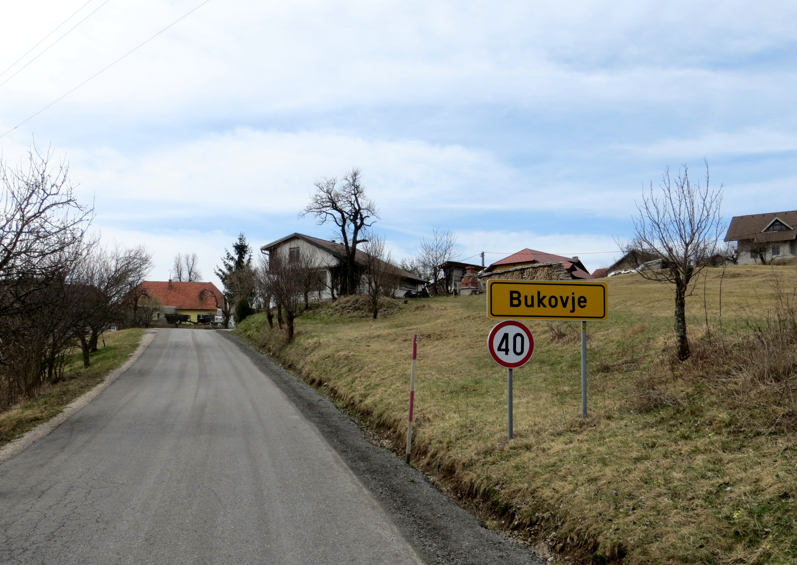 Bukovje, Municipality of Postojna, Slovenia